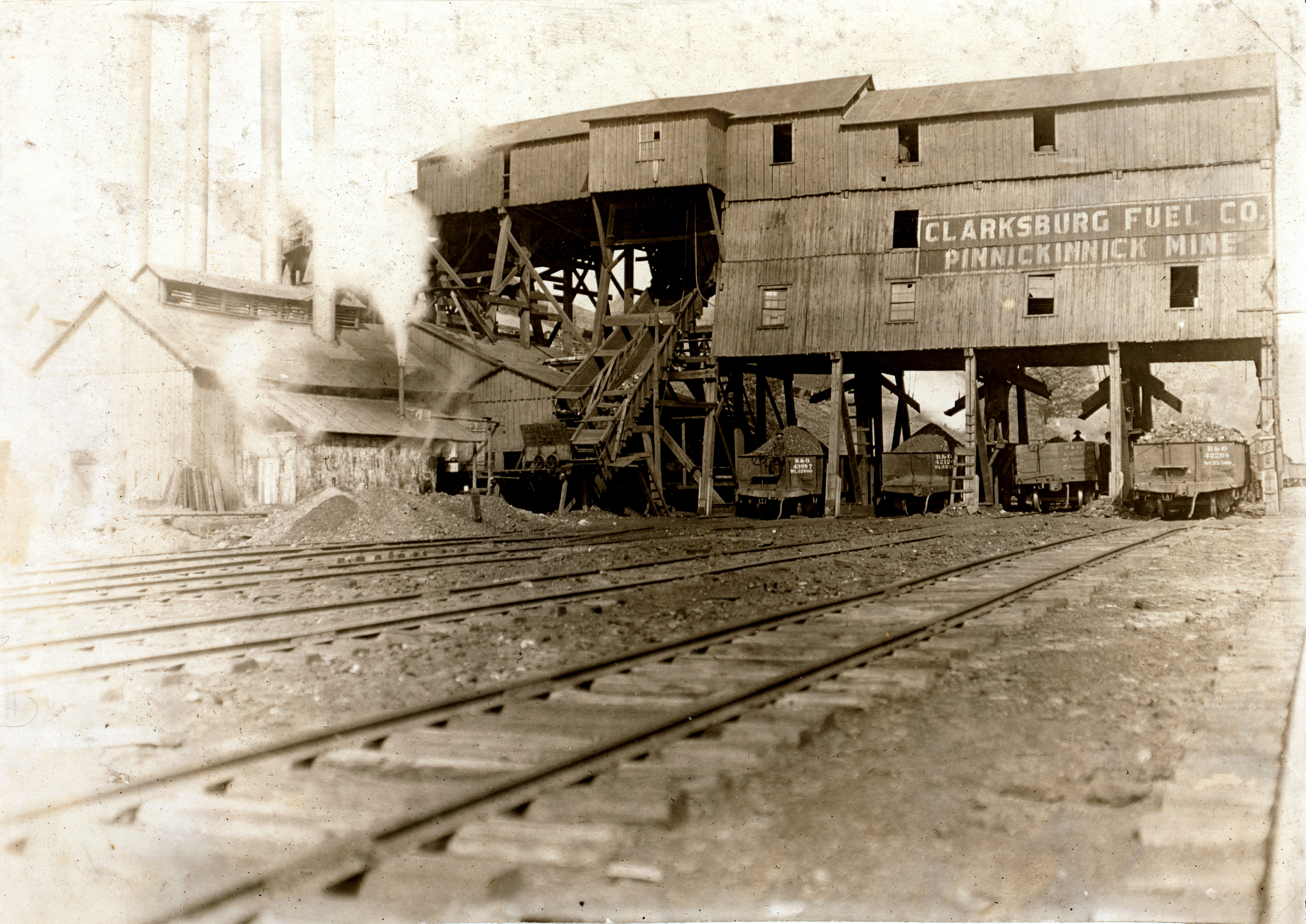 View of a coal tipple at Pinnickkinnick Mine, Clarksburg Fuel Co., Clarksburg, West Virginia.